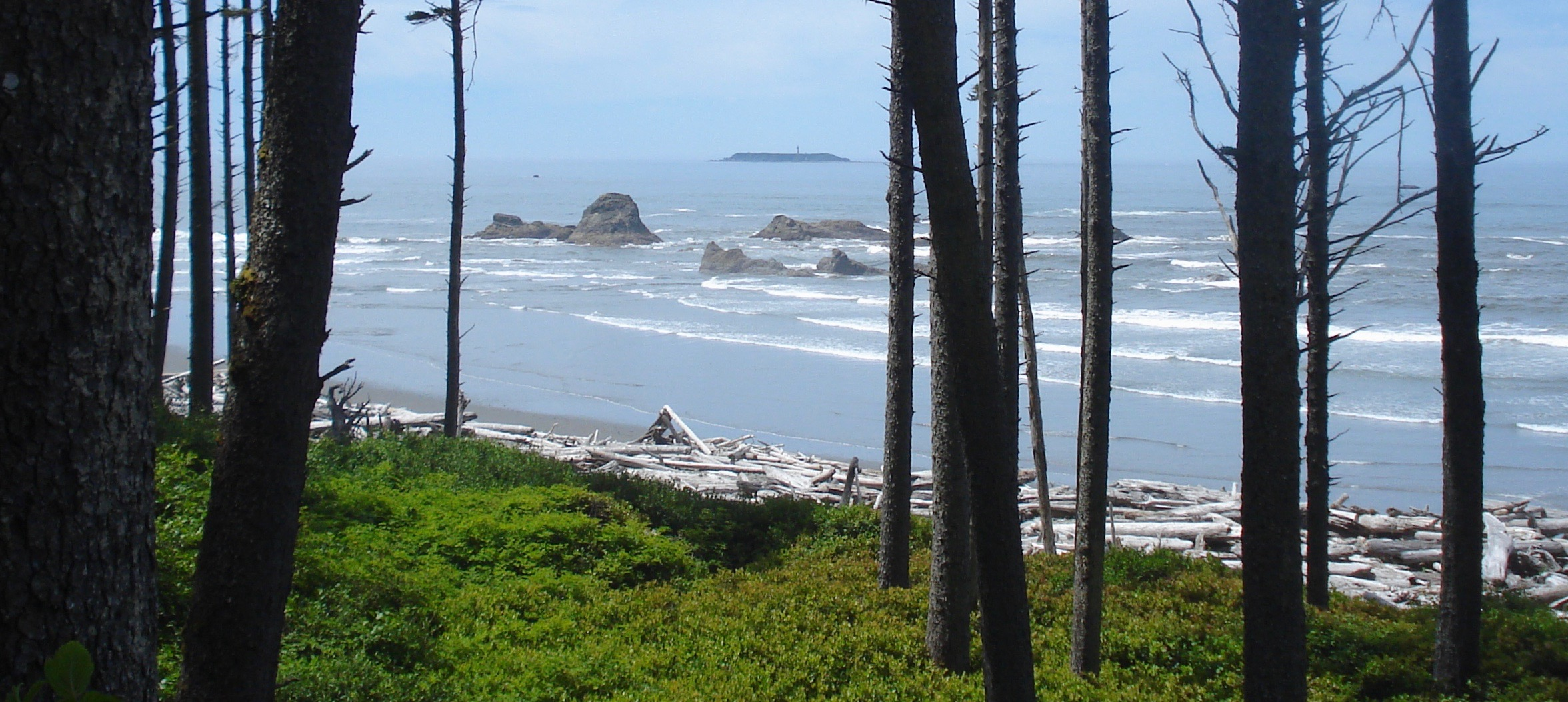 Destruction Island as seen from Ruby Beach, WA. The island lies about three miles offshore. The lighthouse was decommissioned in 2008.